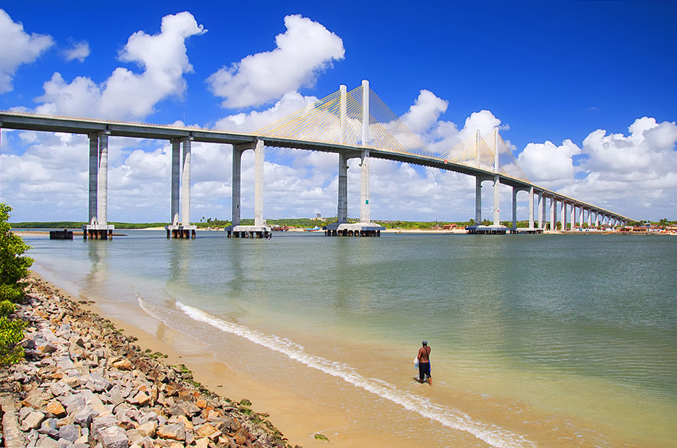 Newton Navarro bridge in Natal, Brazil.